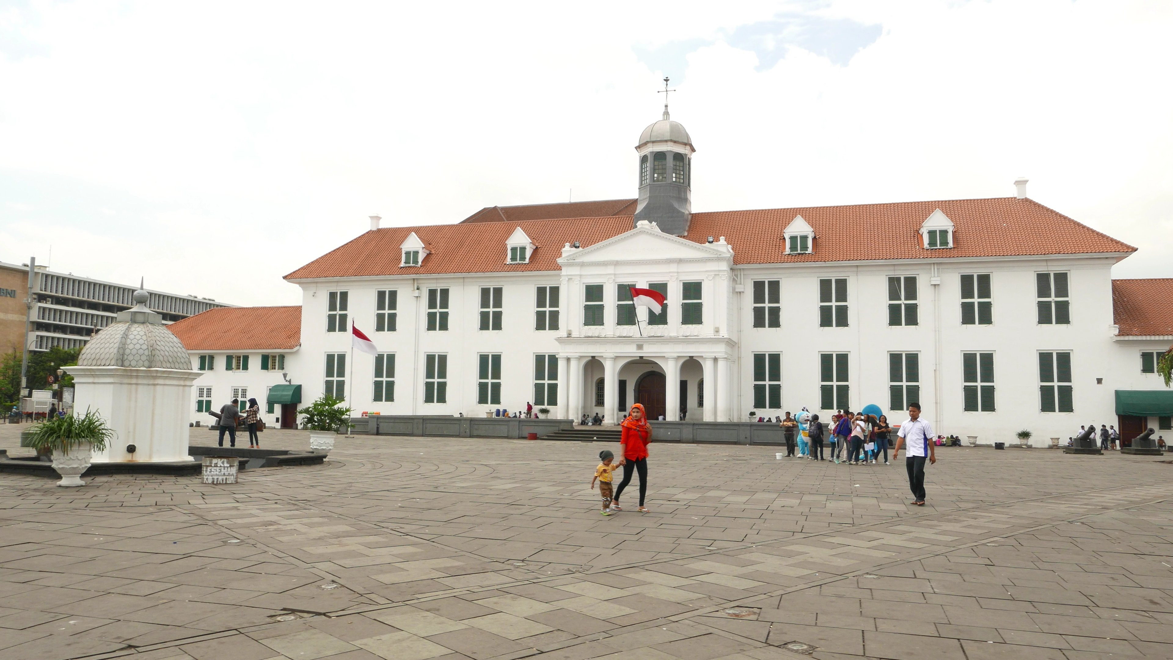 Jakarta History Museum at march of 2015